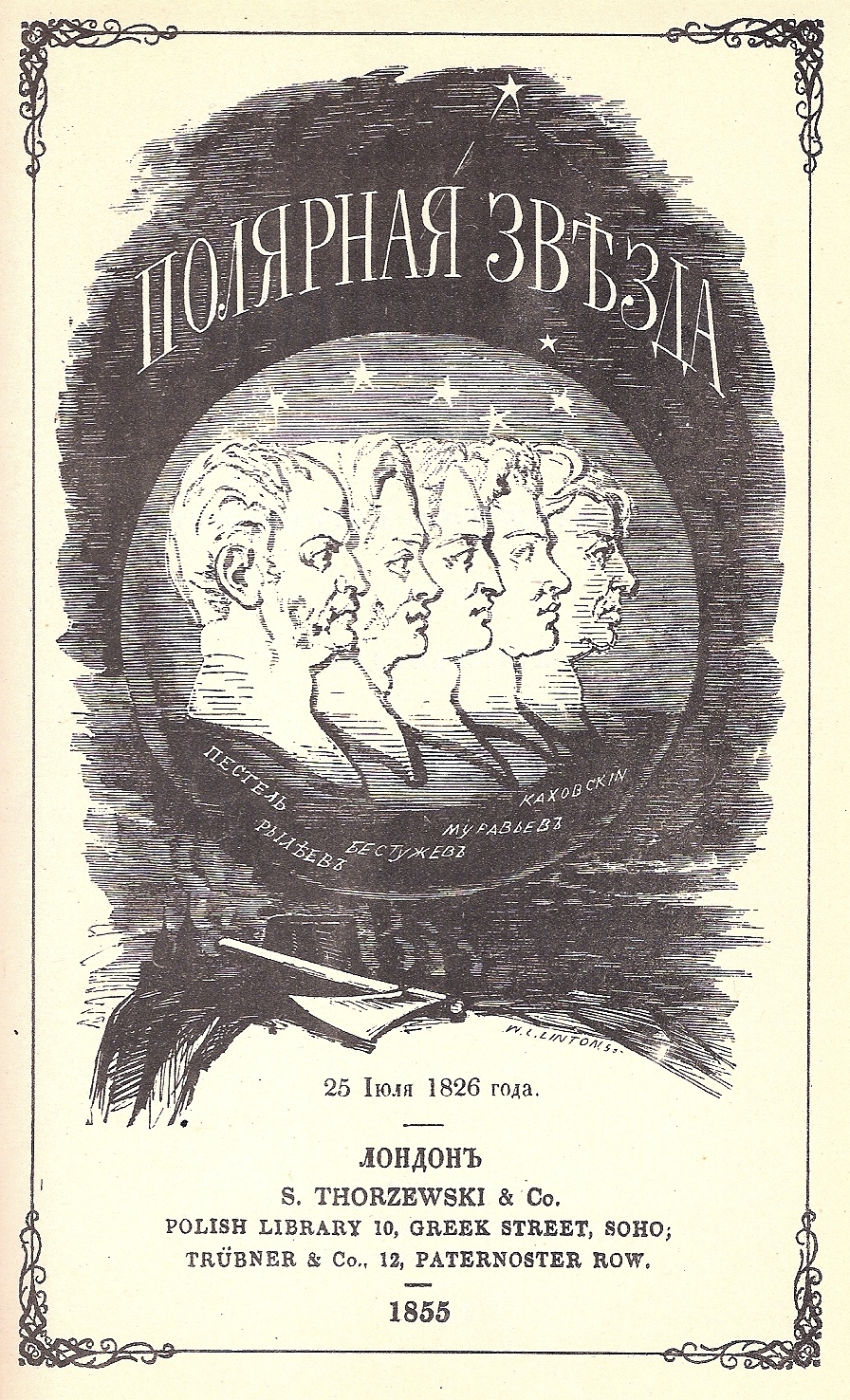 The title page of issue "Полярная звезда" ("Polar Star"), the exile-russian publication of Alexander Herzen and Nikolay Ogarev. London, 1855.